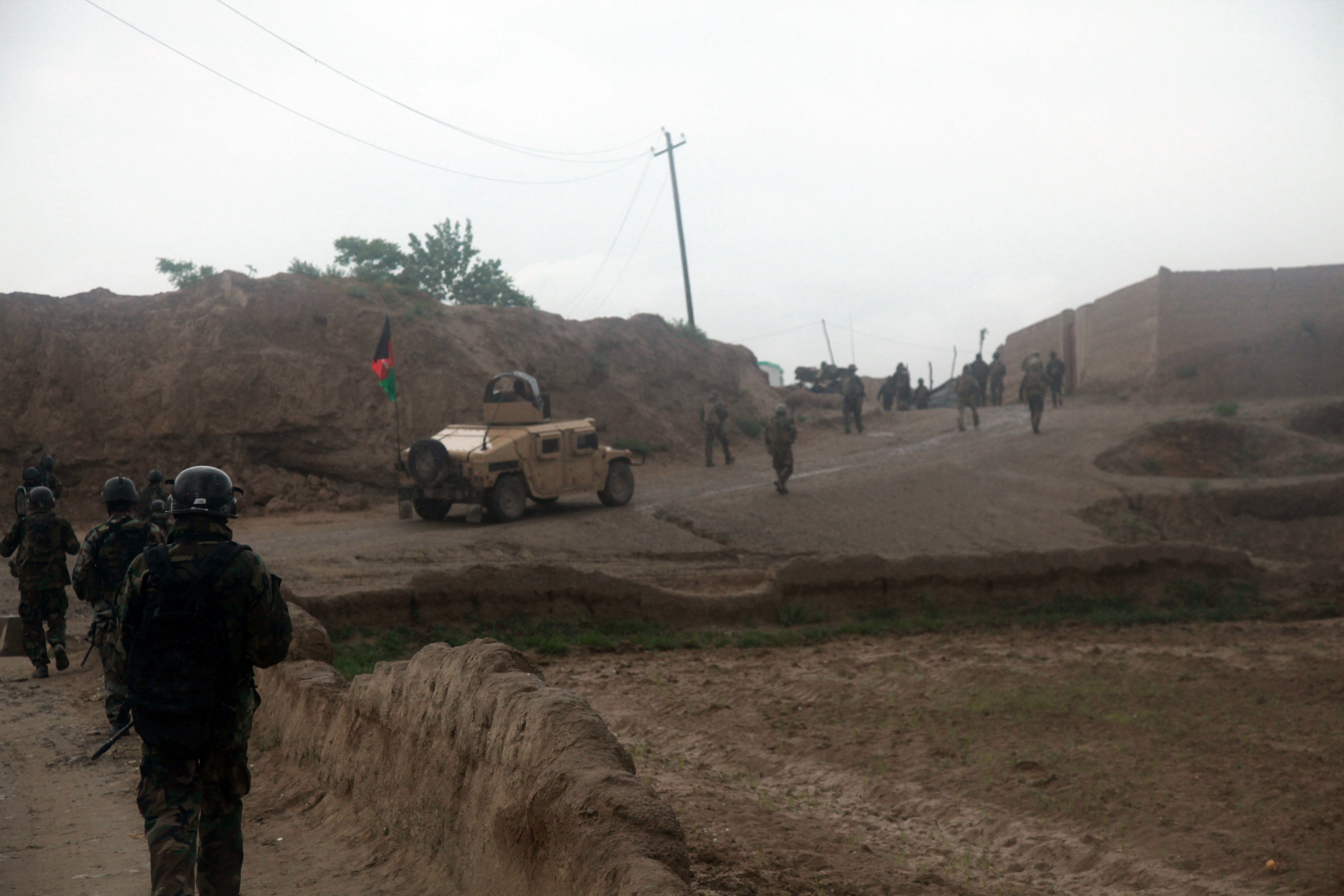 Afghan National Army soldiers with the 5th Commando Kandak conduct a patrol and clearing operation in Boz Qandahari, Kunduz district, Kunduz province, Afghanistan, April 28, 2012. The commandos, assisted by coalition special operations forces, conducted the patrol in an effort to establish security and disrupt insurgent activities in the region.